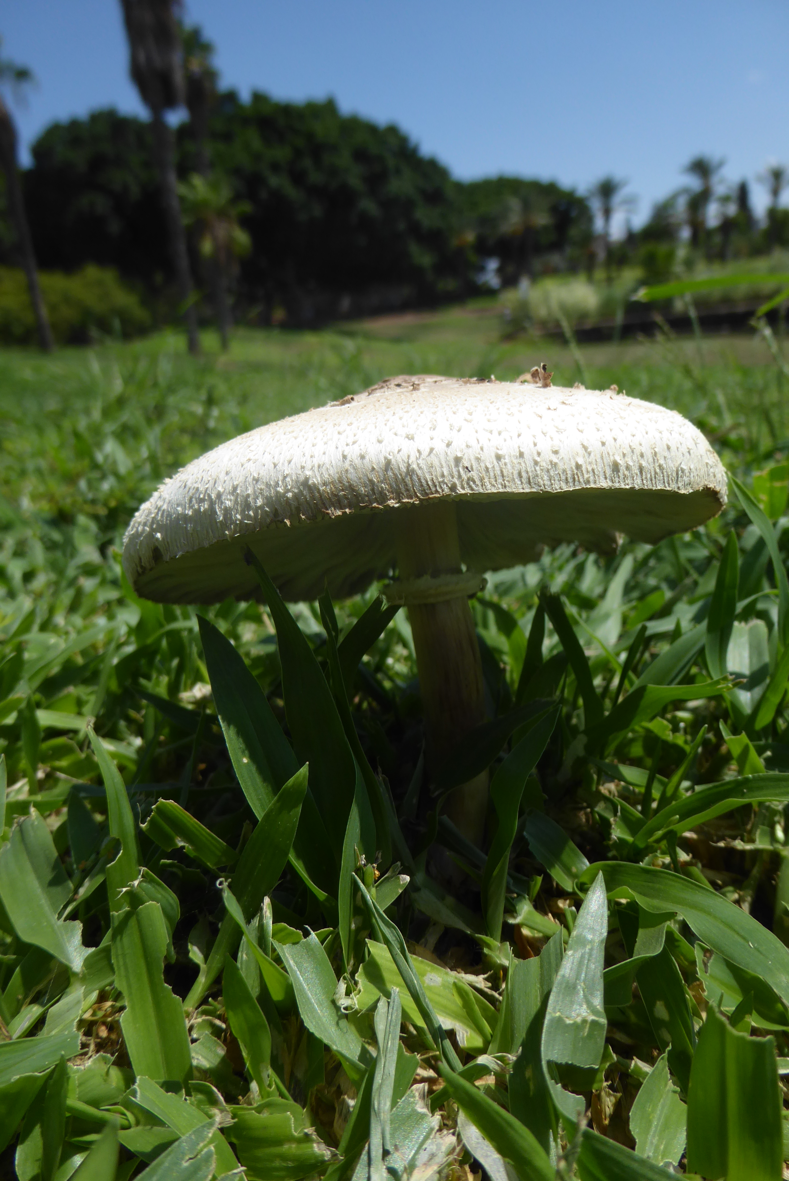 Edith Wolfson Park